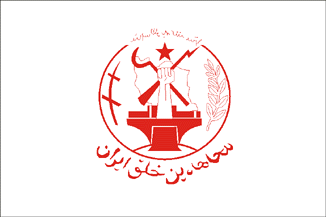 flag of Mojahedin-e-kalq MEK